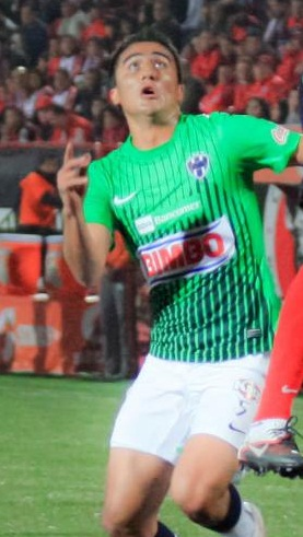 Monterrey player Darvin Chavez